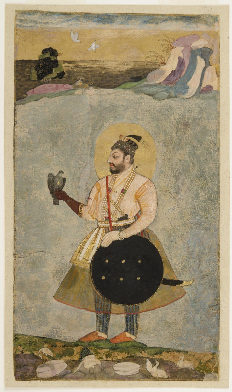 "Sultan 'Ali 'Adil Shah II Made in Bijapur, Karnataka, India c. 1670 Artist/maker unknown, India, Karnataka, Bijapur Opaque watercolor and gold on paper 10 5/16 x 6 1/16 inches (26.2 x 15.4 cm) Currently not on view 2004-149-38 Alvin O. Bellak Collection, 2004 Label During the reign of Sultan 'Ali 'Adil Shah II of Bijapur (reigned 1656-72), ruler of one of the five Islamic kingdoms of the Deccan, the threat of Mughal military domination increased. In painting, however, the Deccani preference for fanciful, decorative compositions reasserted itself over the Mughal naturalism that had filtered into Bijapuri painting during the previous three decades. The sultan stands in a strange landscape; a small hill gives way to a mysterious field of gray that ends abruptly at a group of pink and blue rocks where birds perform aerial tricks. 'Ali 'Adil Shah is oddly drawn, his fingers distorted to follow the shape of his shield, rather than the form of human anatomy."